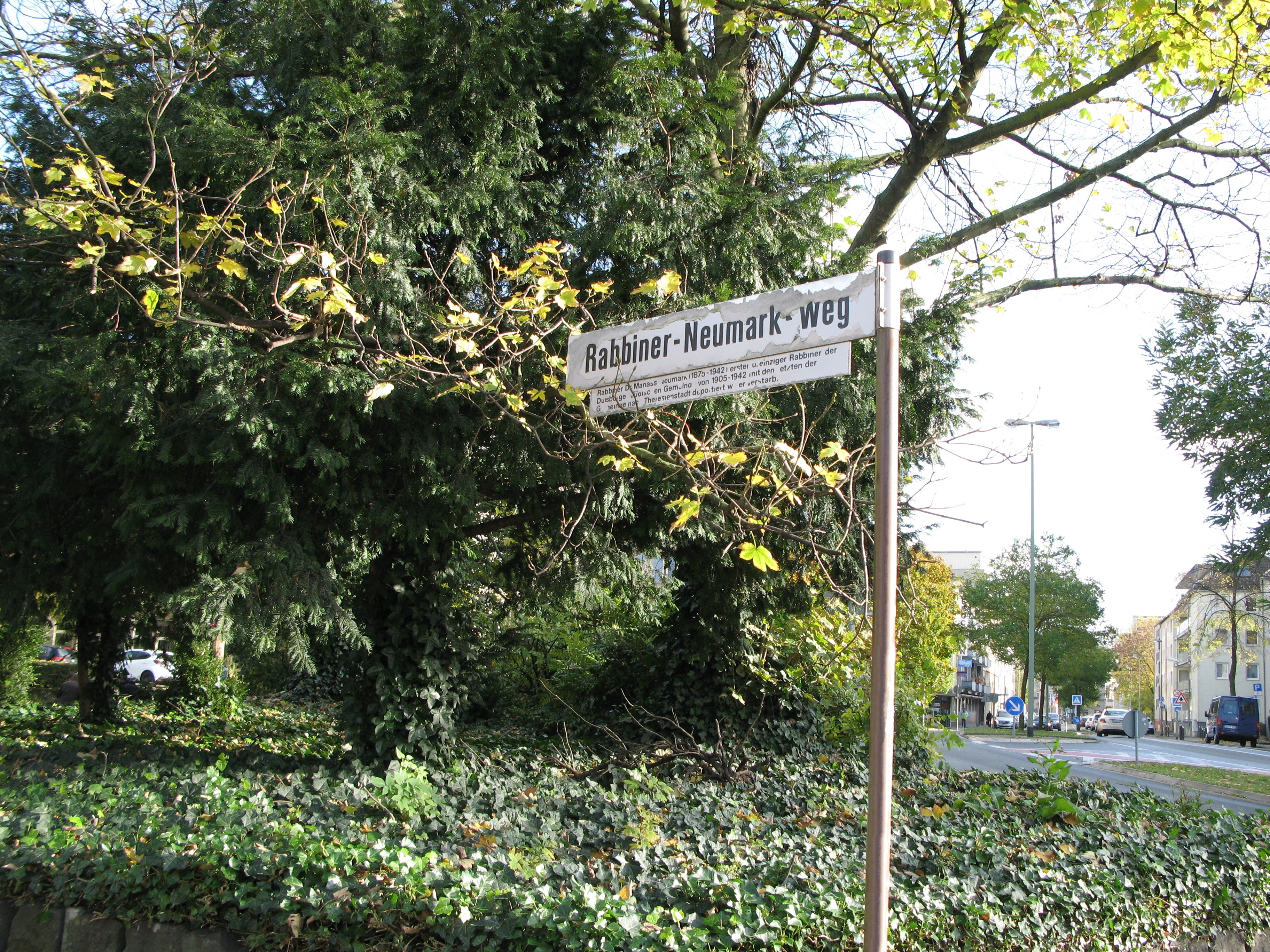 Road sign to the Rabbiner-Neumark-Weg in the old part of Duisburg center, named after the rabbi Manass Neumark